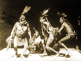 A Sioux group perform "Buffalo Dance" in the film Buffalo Dance by William Kennedy Dickson.